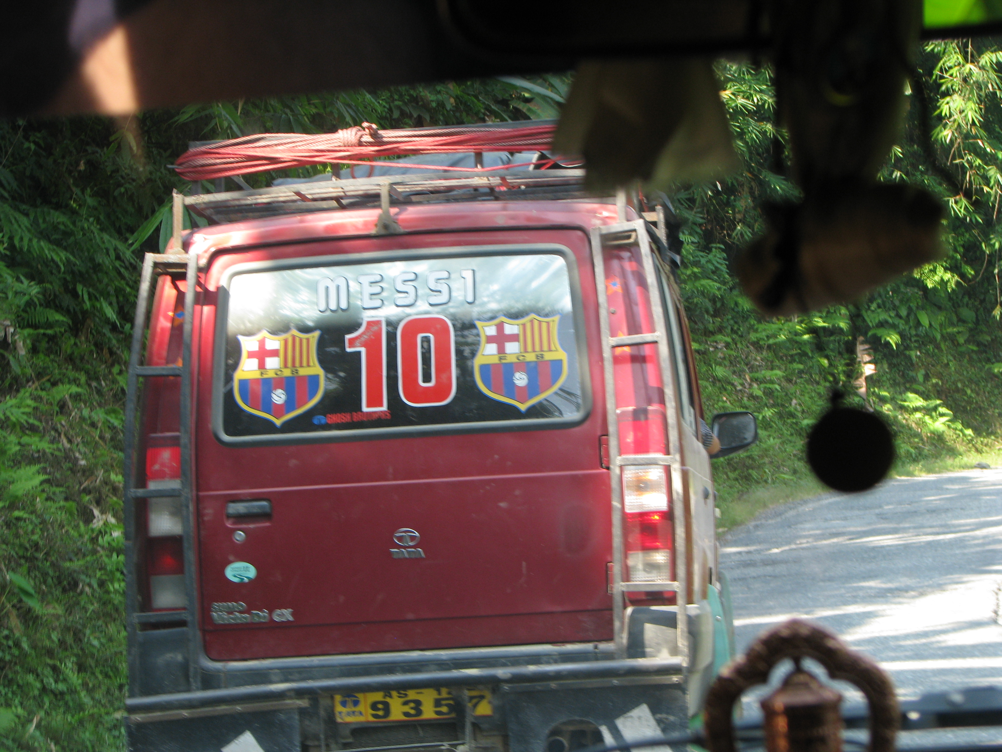 Car with messi's number and barcelons FC colours